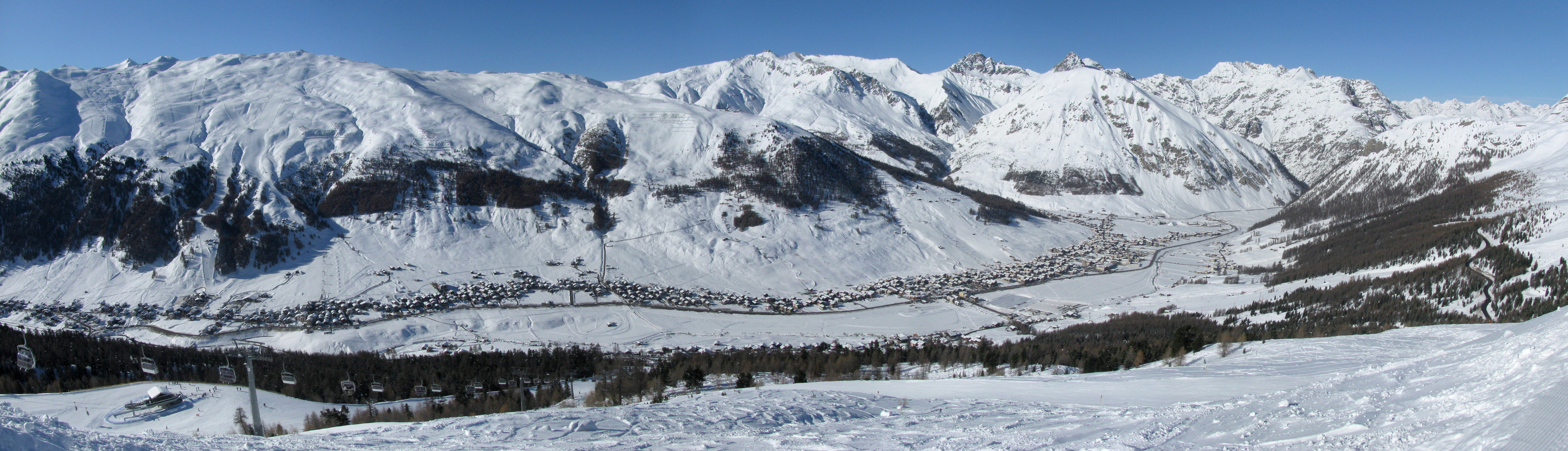 Panoramic view of Livigno, Italy